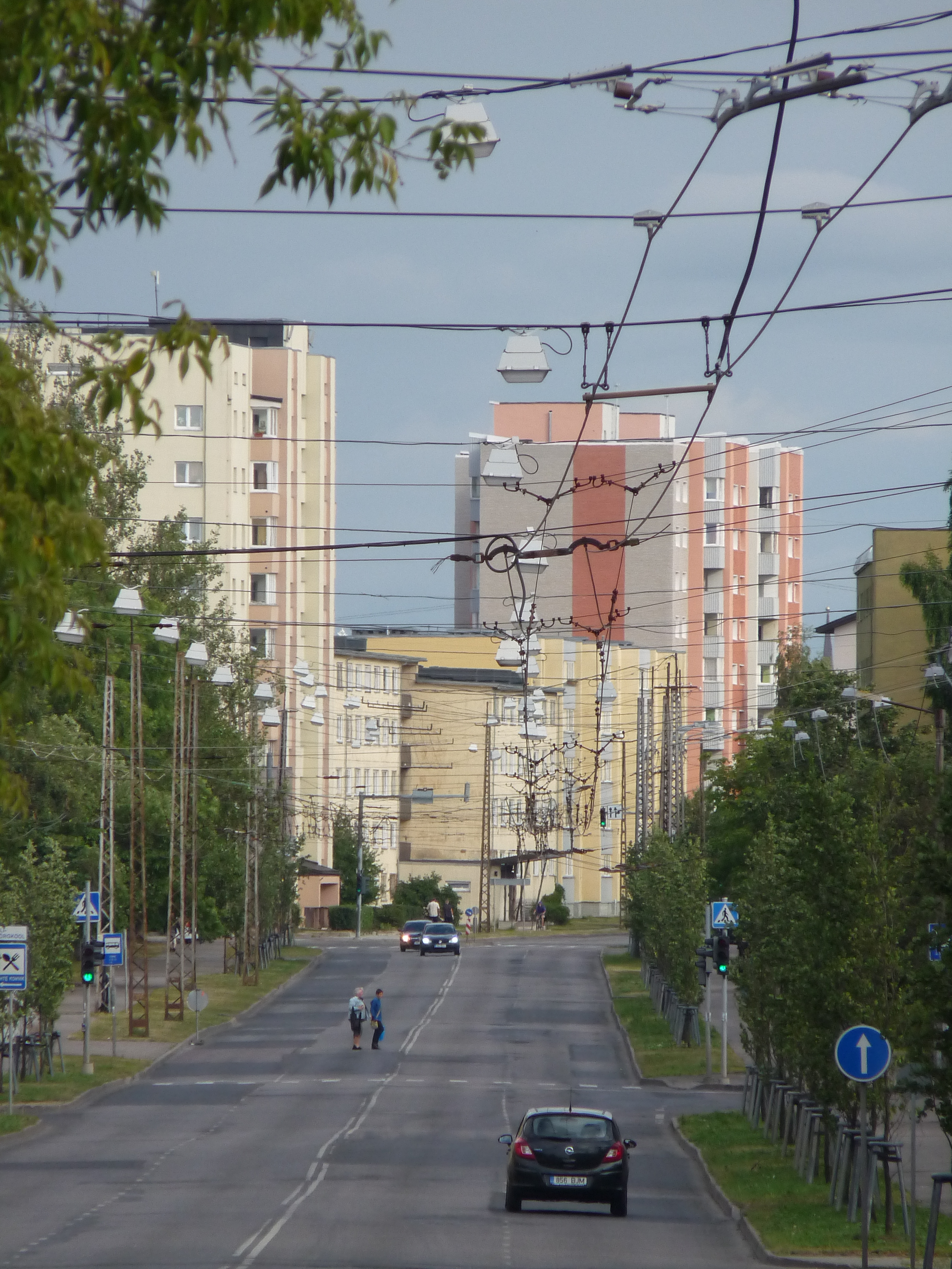 Sõle street in Tallinn, Estonia